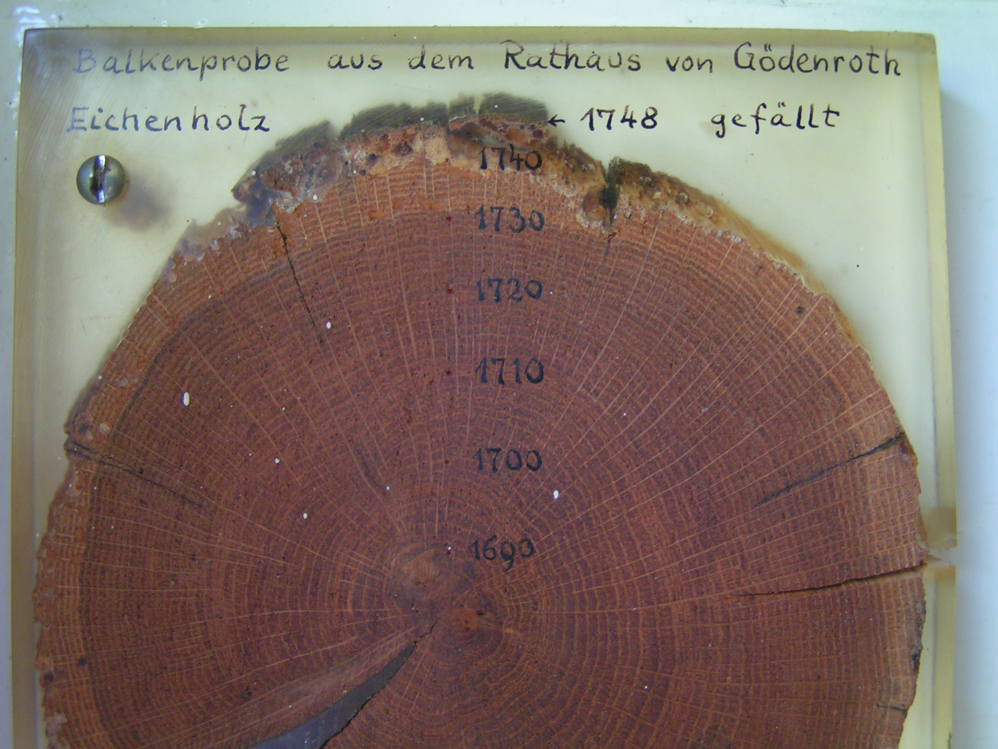 Dendrochronological sample from a beam in Gödenroth Rathaus. The image is clear enough to permit Dendrochronological measurements to be taken directly from this image. The values below are measurements calibrated as if the screw head diameter was 7.0 mm and a mean of two measurement series taken from the upper side and the right side. The T-value for this sample exceeds 7 towards Hollstein's master chronology, which is enough to ensure a safe date. Note the very narrow rings at 1695 and following and from 1709 and after.